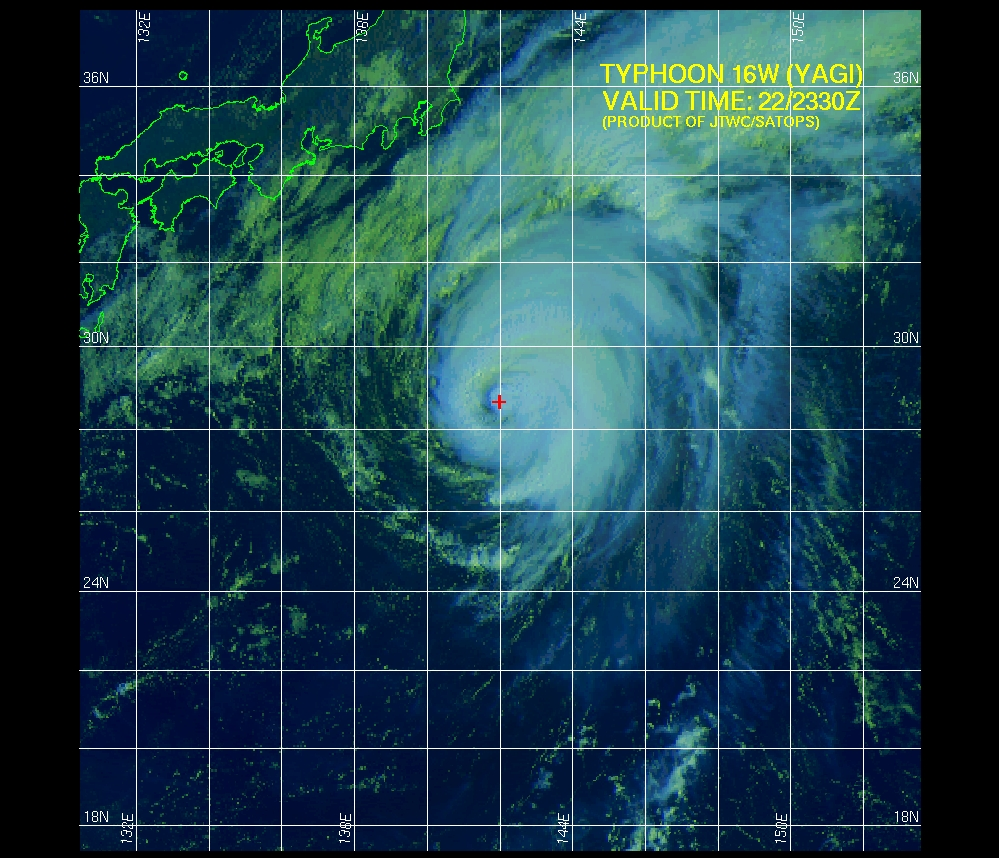 Typhoon 16W (Yagi) 2006-09-22 23-30Z